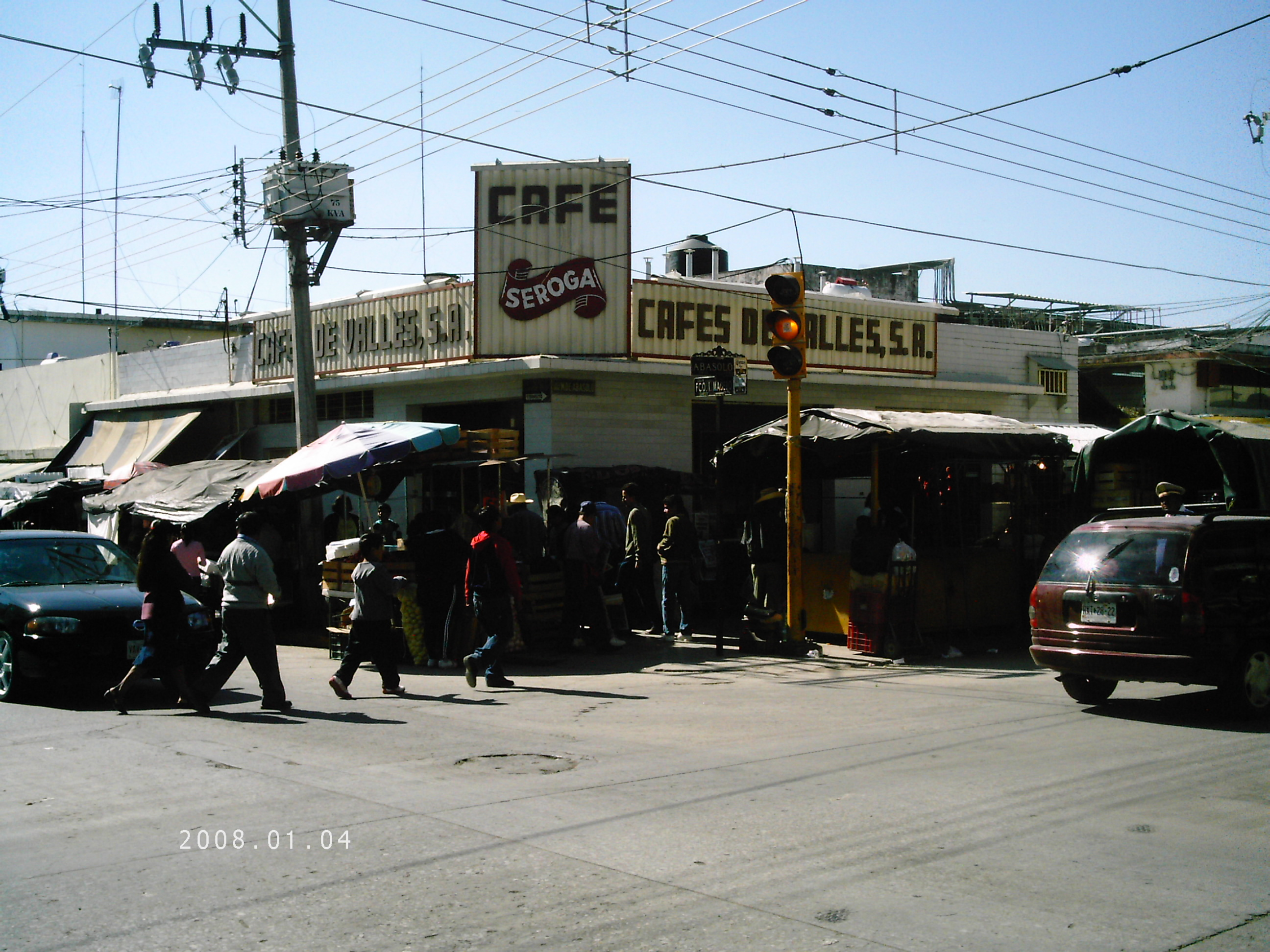 Cafe Serogas de Valles near Ciudad Valles, San Luis Potosí (Mexico)